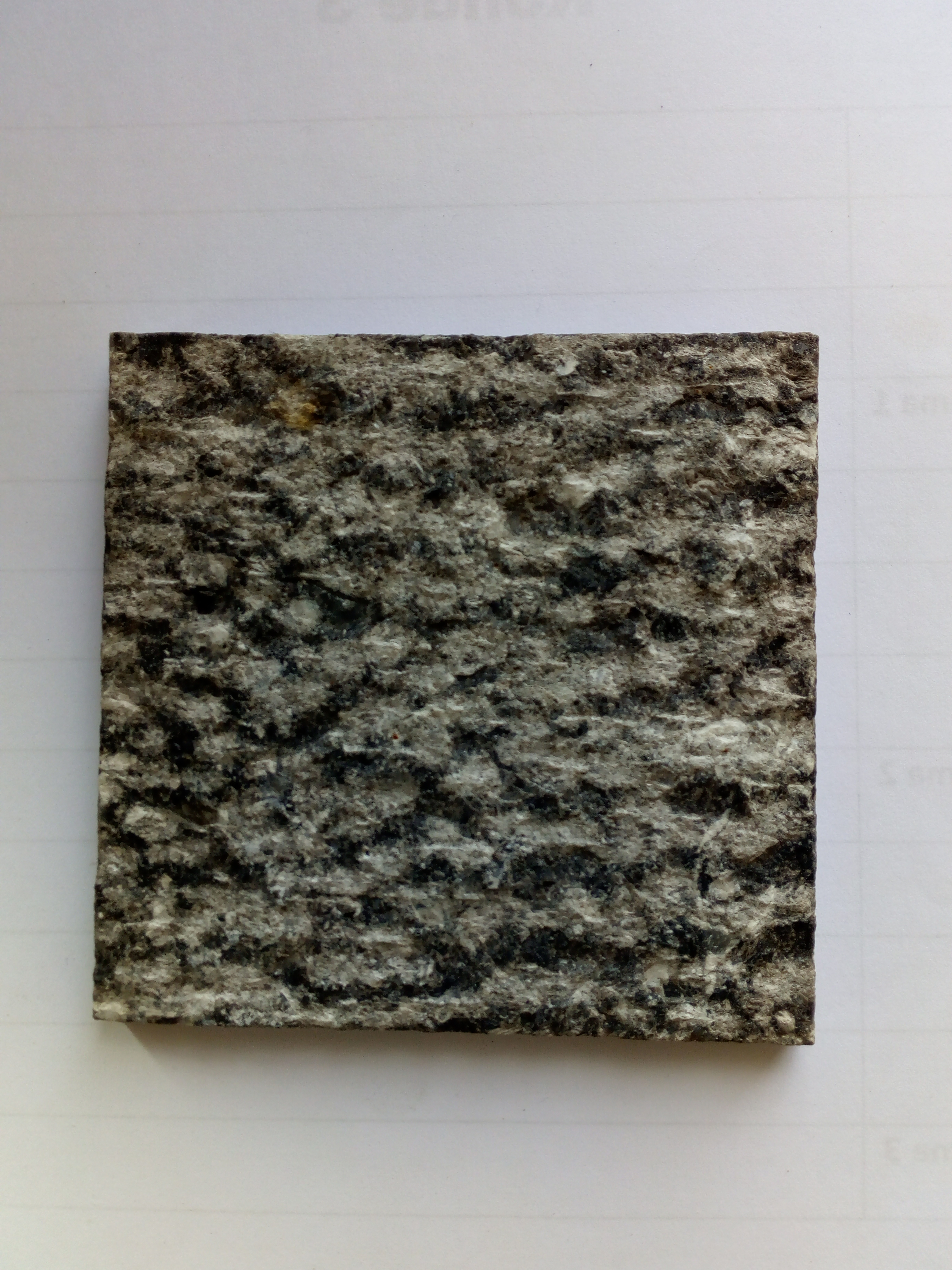 blue stone pick-dressed